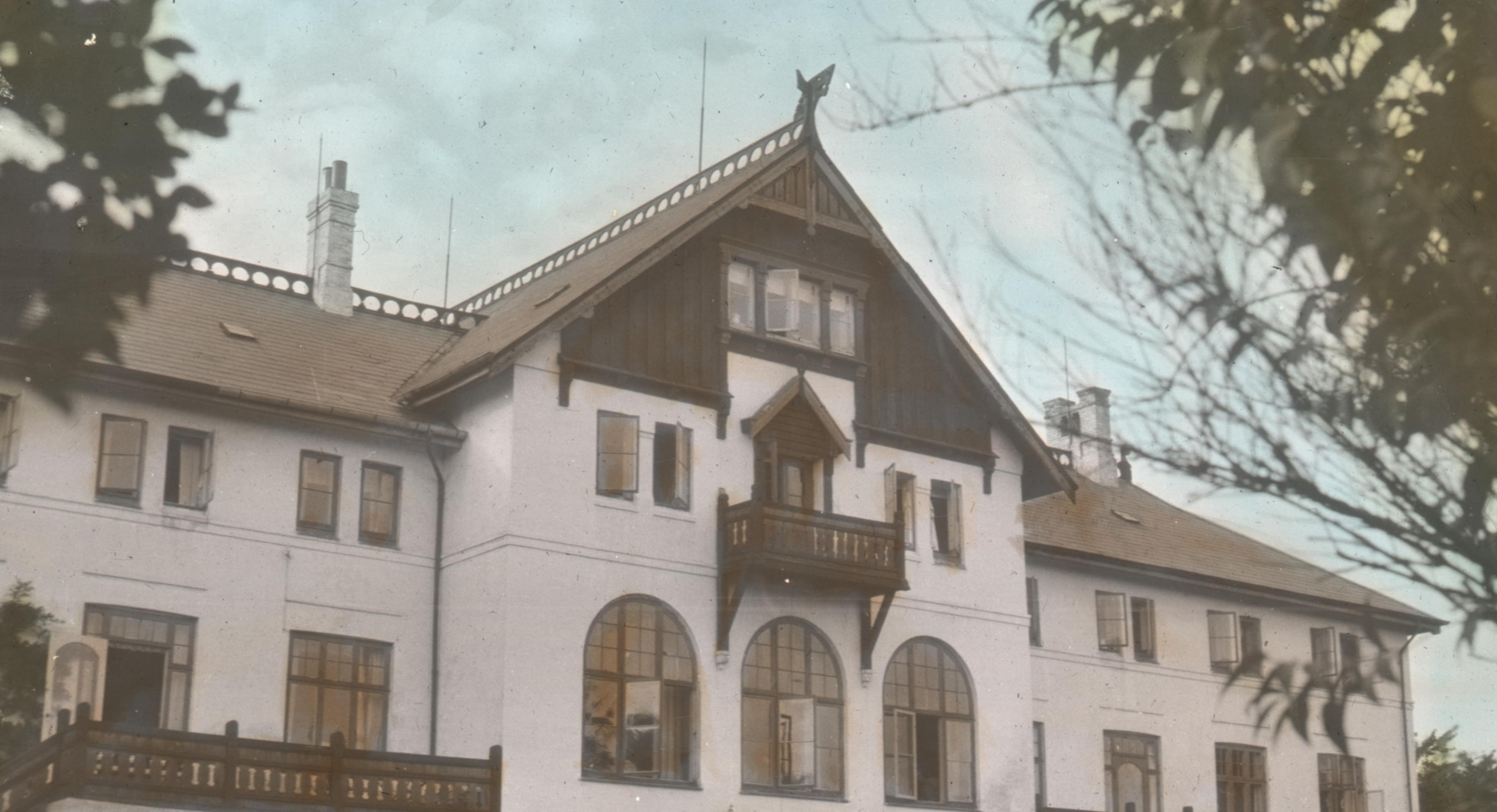 Image Description from historic lecture booklet: "Of all the Danish schools the ones which have received the greatest consideration by American agricultural leaders are the Peoples (or Folk) High Schools. These originated with the thought and vision of N.F.S. Grundtvig, historian, and teacher who was beginning bishop, historian, and teacher who was beginning his great work a little less than a century ago. Their educational aim is "to give clear notions of the civic community and the conditions of its welfare, an appreciation of the national character and the ability to express one's thoughts with ease and vigor, freedom and propriety." Five months' courses for men are given in the winter and three months; courses for women in the summer. Some technical training is given. With this the young men and women, for two generations, have been getting a vision of rural life in all of its fullness and an appreciation of the value of unselfish service. It was in 1856, on Bishop Grundtvig's 70th birthday, that a wealthy party in Copenhagen presented him with equipment for the fourth school to be established and developed under his personal direction. This school was located at Lynby. It is fairly typical of the 79 high schools and Agricultural Colleges which have an annual total enrollment of 8100 students." Original Collection: Visual Instruction Department Lantern Slides Item Number: P217:set 067 031 You can find this image by searching for the item number by clicking here. Want more? You can find more digital resources online. We're happy for you to share this digital image within the spirit of The Commons; however, certain restrictions on high quality reproductions of the original physical version may apply. To read more about what “no known restrictions” means, please visit the Special Collections & Archives website, or contact staff at the OSU Special Collections & Archives Research Center for details.